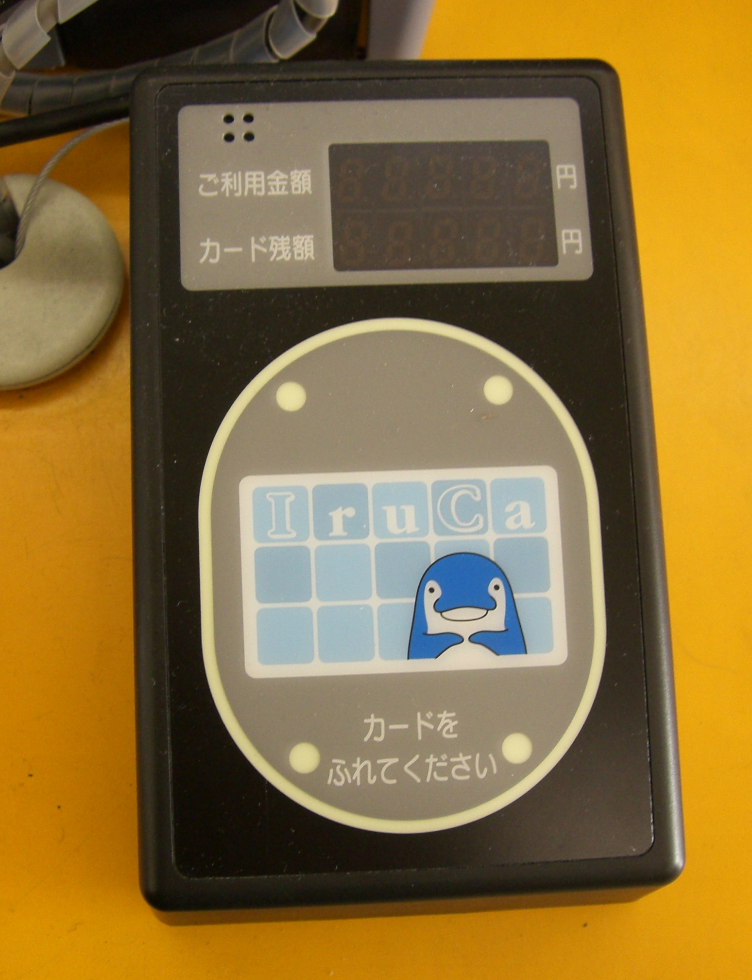 IruCa Card Reader in Convinience Store